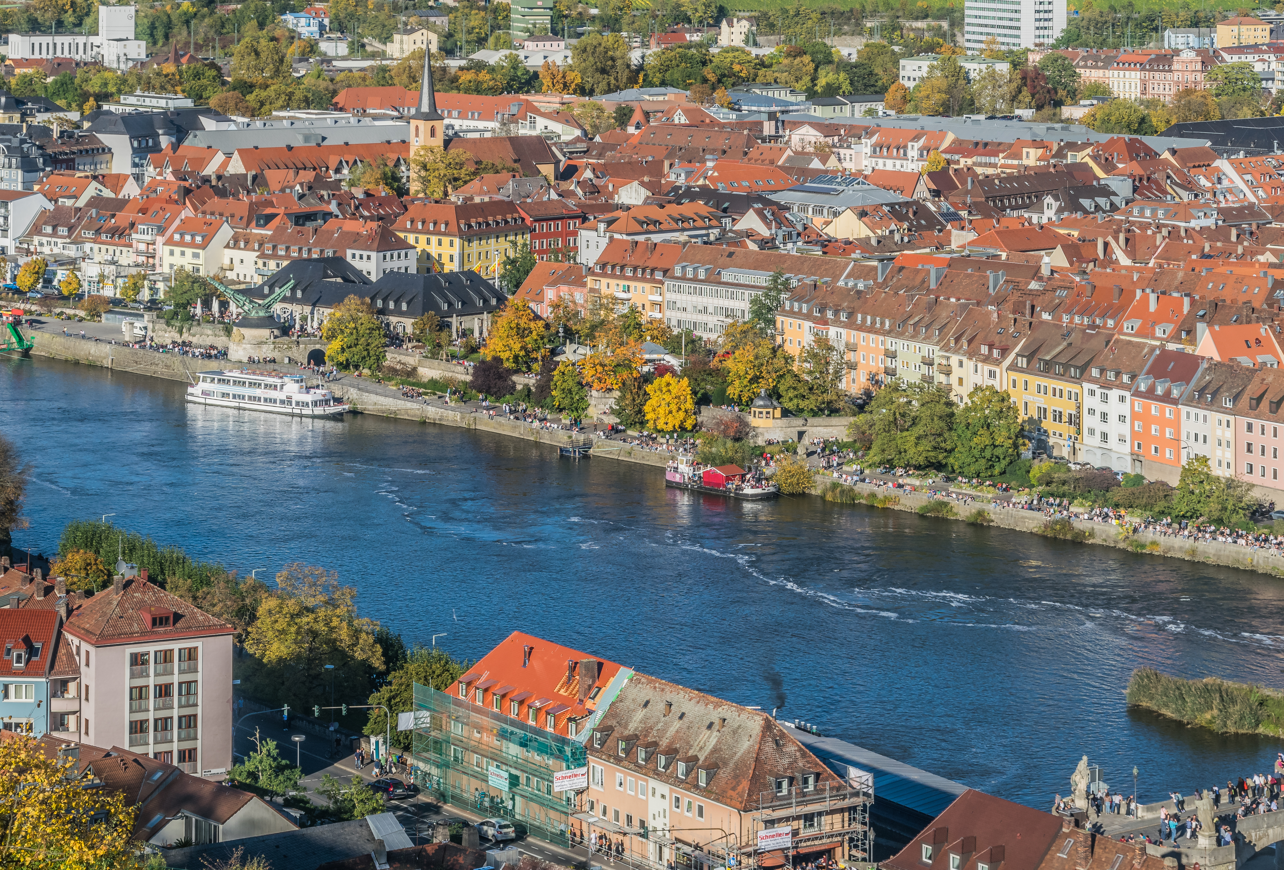 Main River in Würzburg, Bavaria, Germany